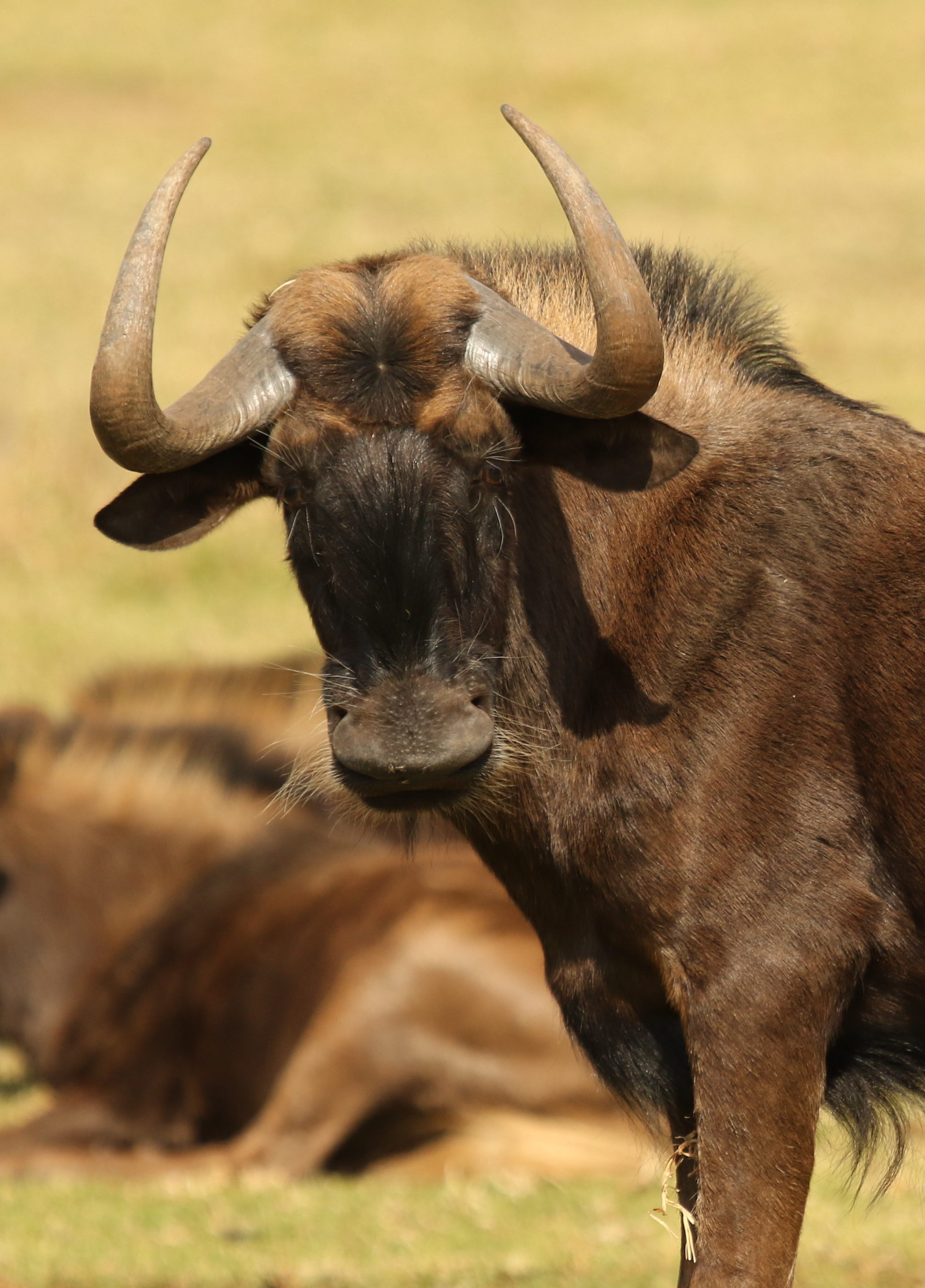 Black wildebeest, or white-tailed gnu, Connochaetes gnou at Krugersdorp Game Reserve, Gauteng, South Africa